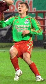 Marat Izmailov in action for FC Lokomotiv Moscow